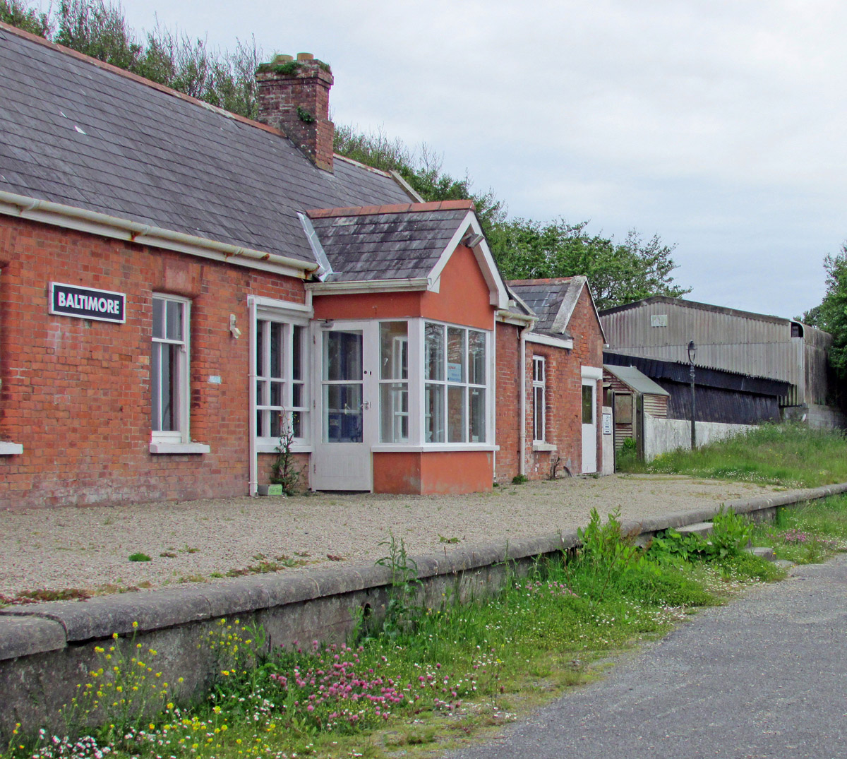 Hamilton railway station, Cork Ireland, in 2014